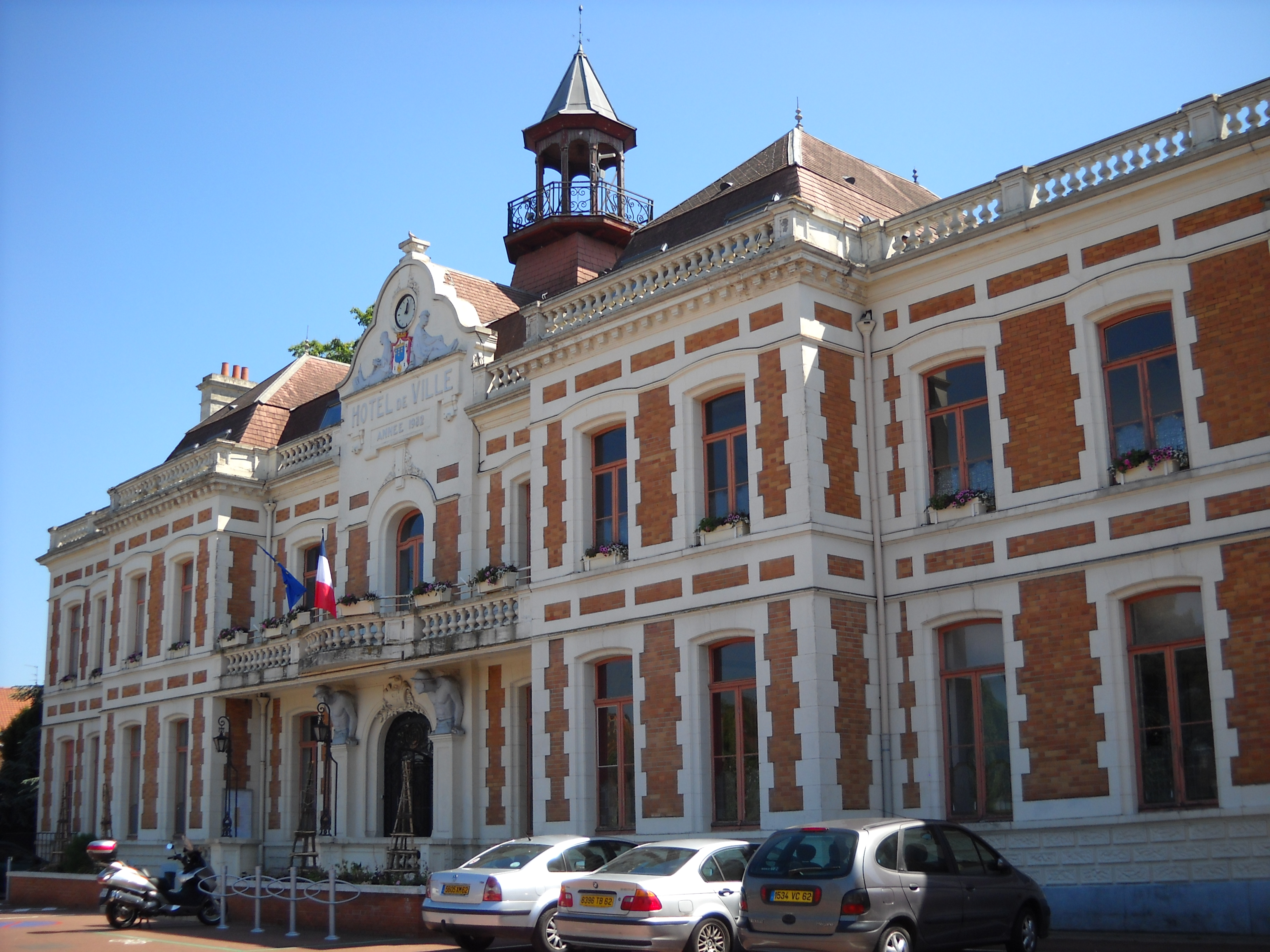 The town hall of Carvin, Pas-de-Calais, France.